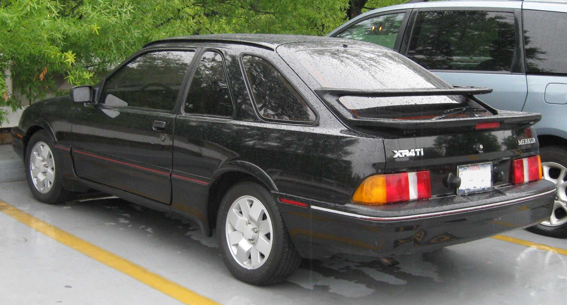 1985-1989 Merkur XR4Ti photographed in Bethesda, Maryland, USA.